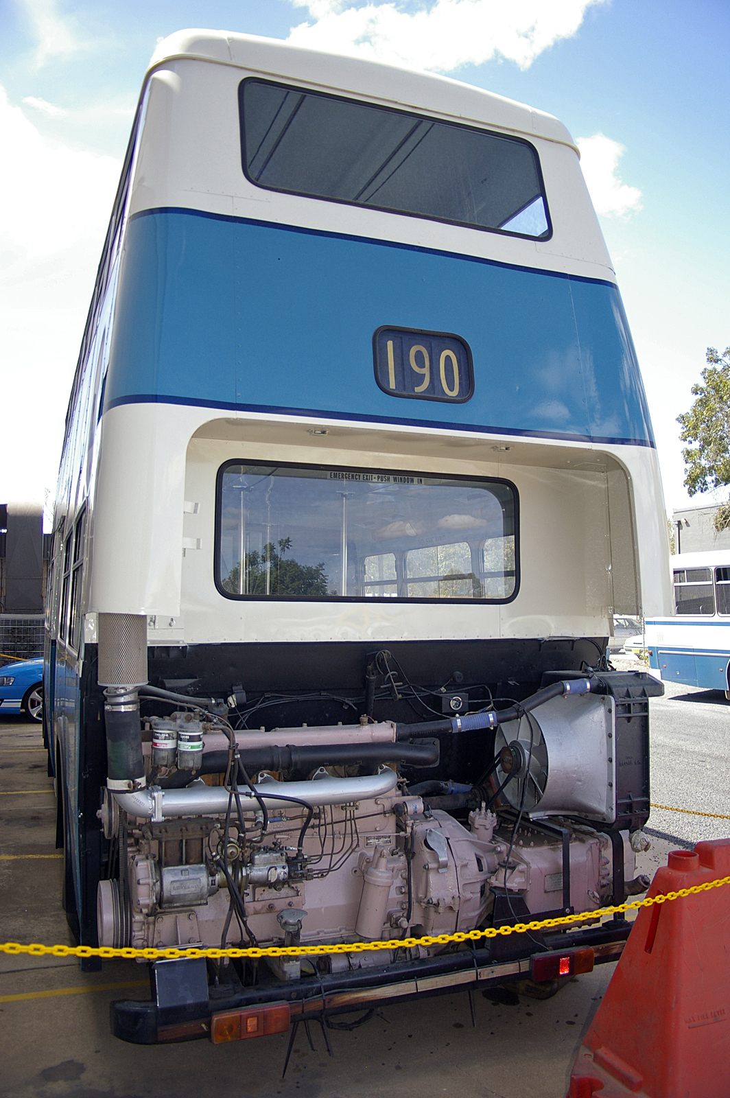 A privately owned Leyland PDR1A/1 Atlantean 1016 in STA former livery at the Fearnes/Busabout Wagga Wagga depot.